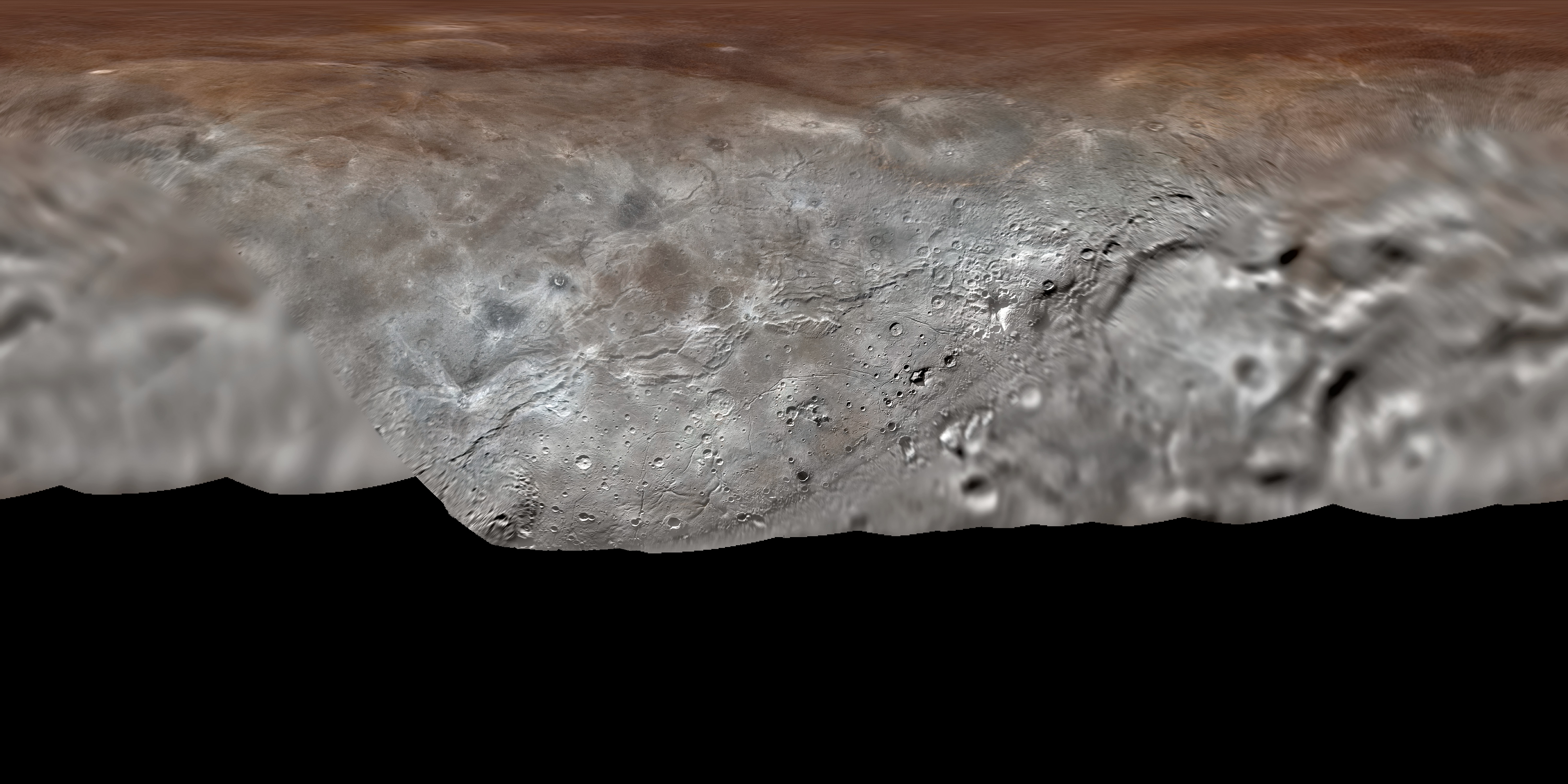 Map projection of Charon, the largest of Pluto’s five moons. With a diameter of about 1215 km, the France-sized moon is one of largest known objects in the Kuiper Belt, the region of icy, rocky bodies beyond Neptune.